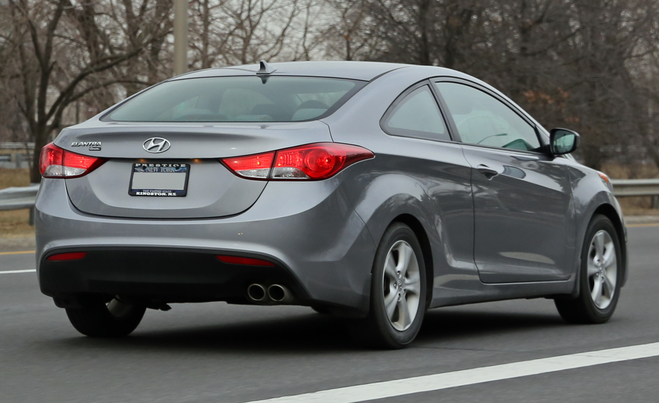 A 2014 Hyundai Elantra Coupé - never saw one of these before, even though it's apparently been on sale for a year and a half already.